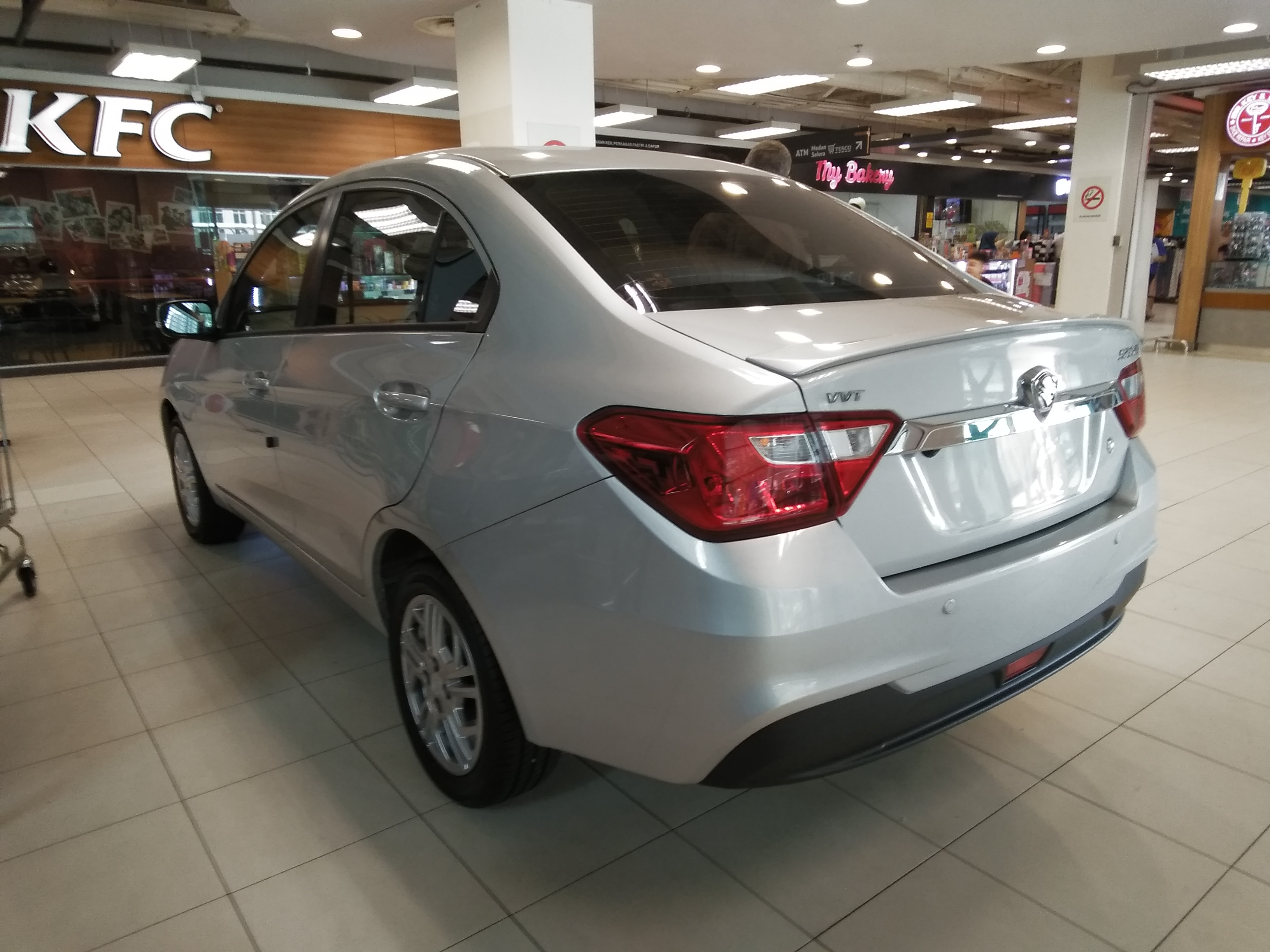 A 2019 Proton Saga Premium CVT photographed at Tesco Jelutong, Penang, Malaysia on the 2nd of March 2019.